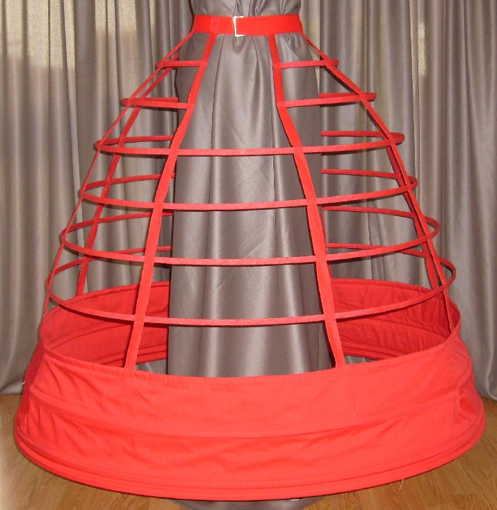 Reproduction of a 1858 crinoline. Spring steel hoops entirely covered in red cotton, sewn by hand. Only the bottom part tunnels are sewn by machine. ++++++++++++++++++++++++++++++ Stahlreifenkrinoline von 1858. Die einzelnen Reifen dieser Krinoline wurden mit roter Baumwolle ummantelt und vonHand genaeht. Der Fussteil jedoch mit der Maschine.